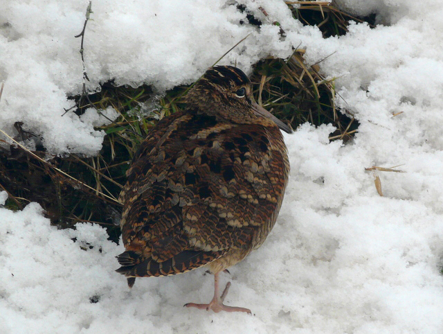 Woodcock. This Woodcock was foraging by the roadside, and didn't seem to realise his camouflage wasn't working too well in the snow!